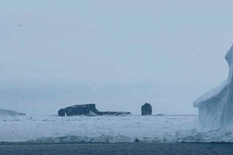 Scott Island and Haggitt’s Pillar between icebergs